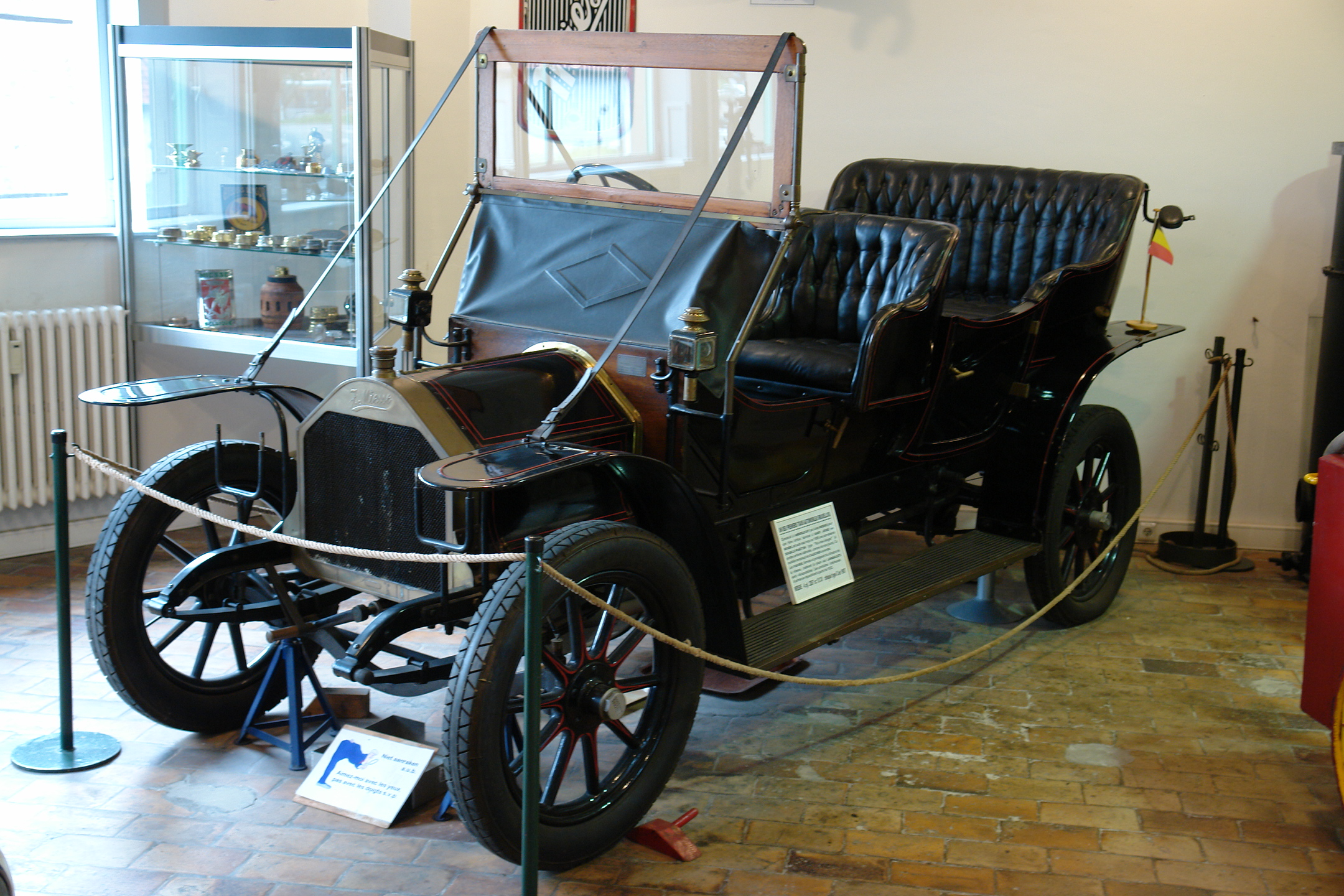 Brussels Tramway Museum